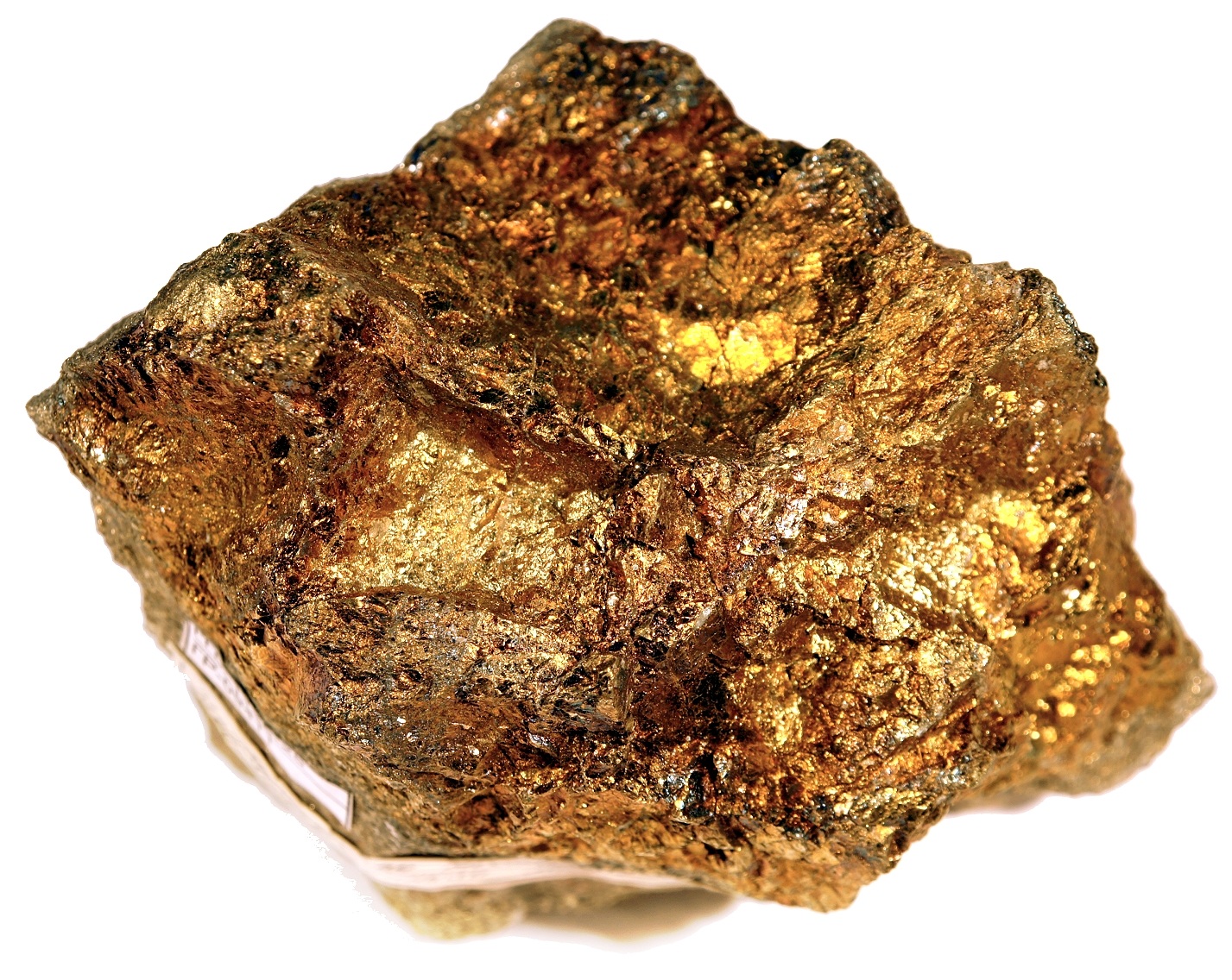 Chalcopyrite ore from the deposit at Shamlugh in Armenia. From the collection of the Vernadsky State Geological Museum in Moscow, Russia. Collected by Movsesyan in 1969. Size is 7 by 6 by 6 centimetres.